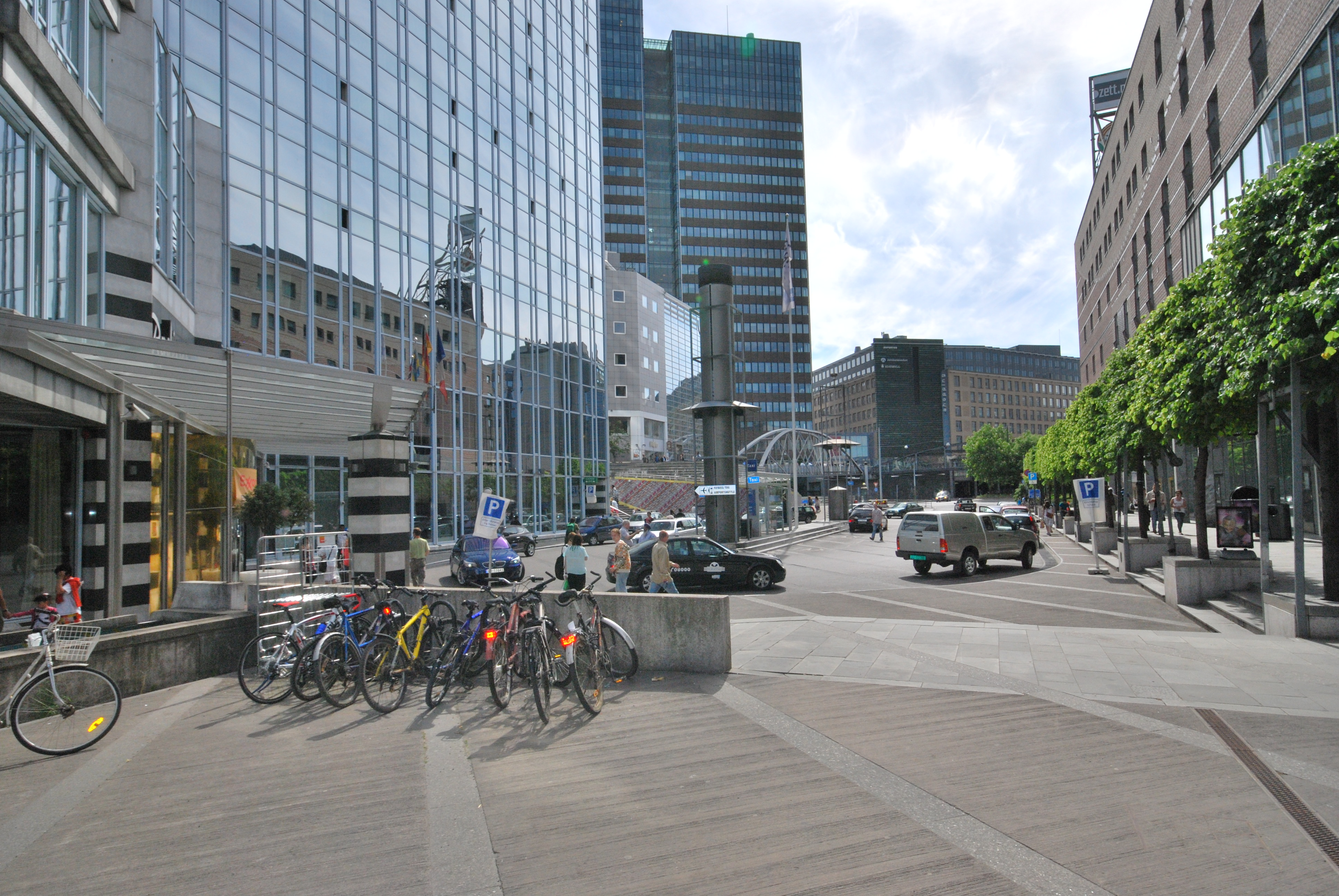 Sonja Henies plass (square), Vaterland, Oslo, seen from norteast. Oslo Spektrum to the right, Radisson Oslo Plaza to the left